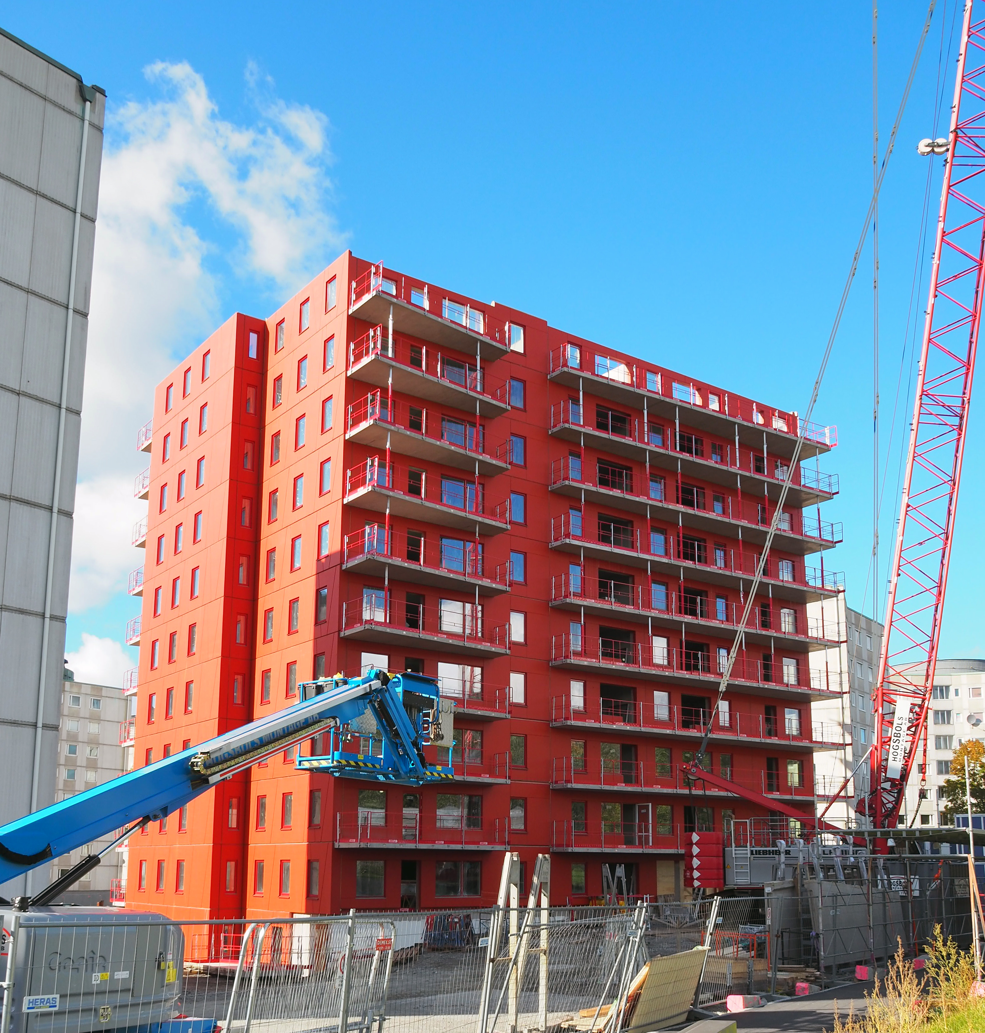 The building Sjöstjärnan (Sjöstjärnan) under development in Munspelsgatan in Frölunda in Göteborg, Sweden